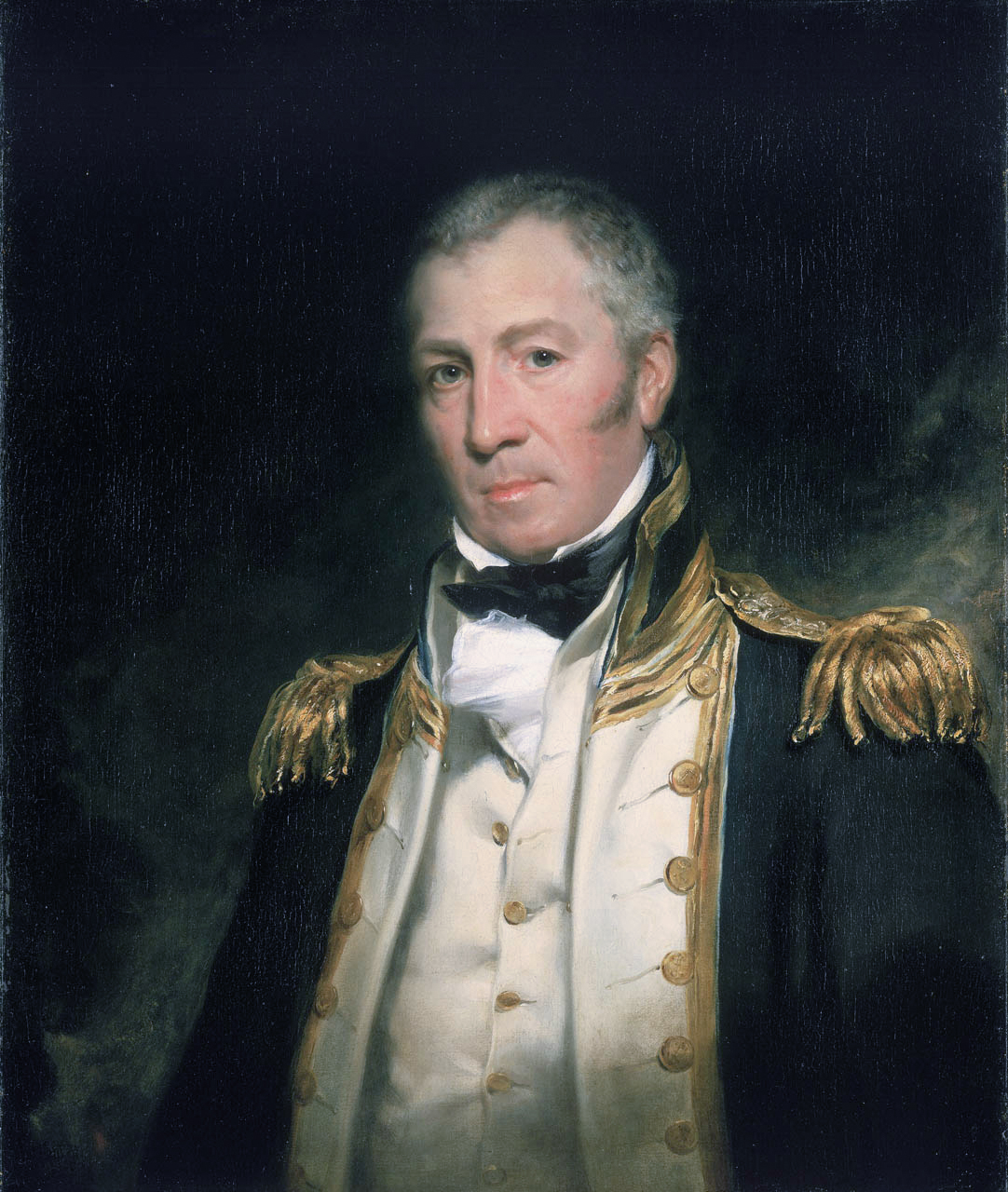 This is a portrait of Peter Heywood, one of the mutineers of the Bounty.